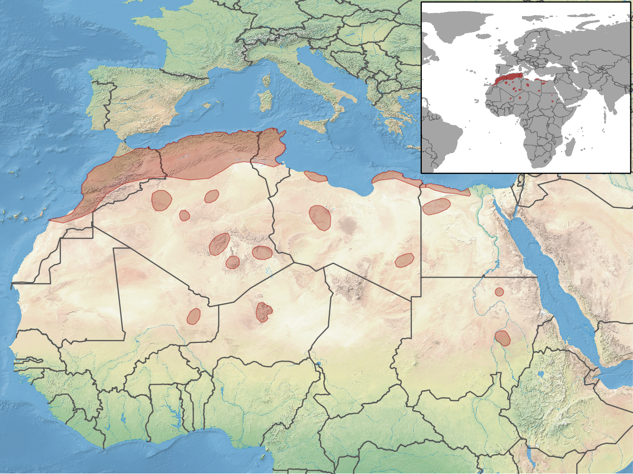 geographic distribution of Gerbillus campestris